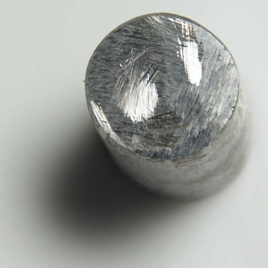 Iron is a silvery, relatively reactive metal, which is very abundant and is used for multiple purposes. Commonly it is alloyed together with carbon and other elements, to become steel. The number of different steels is very high, their characters vary over a wide span. Sometimes pure iron occurs in nature, but most is found in ores. Meteorites, that hit Earth's ground and don't evaporate before, often are iron meteorites. Iron can be seen as an energetic ideal state of matter. Smaller atoms can set energy free by fusion, larger atoms by fission, but from iron no nuclear energy can be won. Iron 56 and 58 and nickel 62 have the highest binding energy per nuclear particle. Very big stars form an iron core shortly before their final collapse and the following supernova. Iron is essential for mammals and makes our blood red. Iron is known to humanity since several millennia and has shaped our culture and civilization like no other element.